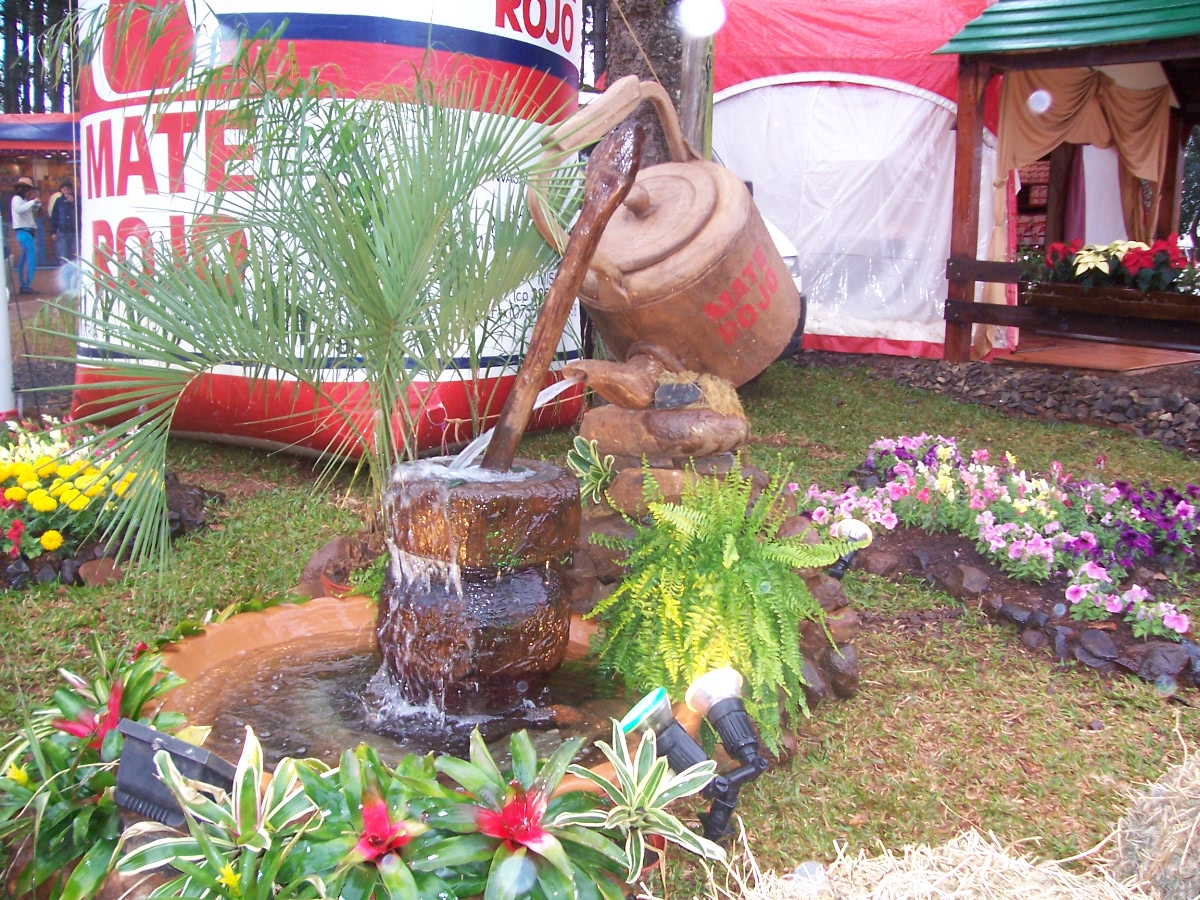 Picture of an allusive sculpture to Mate, of a well-known company dedicated to this product, in the Park of the Nations, within the framework of XXVI the National Immigrant's Festival, in Oberá, Misiones, Argentina.